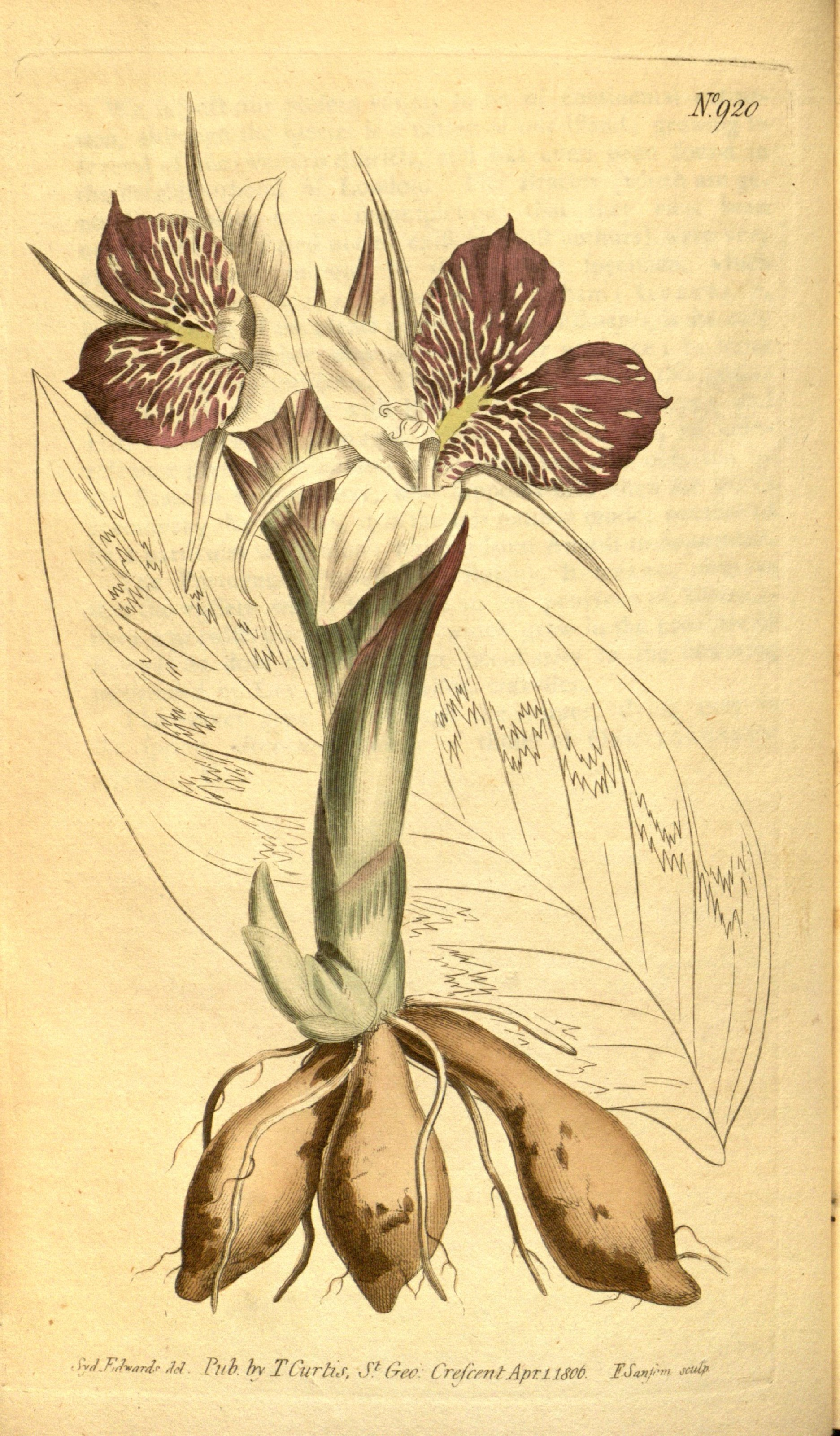 'J V ,ka 1 , hard'- .74 Pvh.hv T Curtis, S f l-nr Crrf/rnrApri.lSCb- TJ